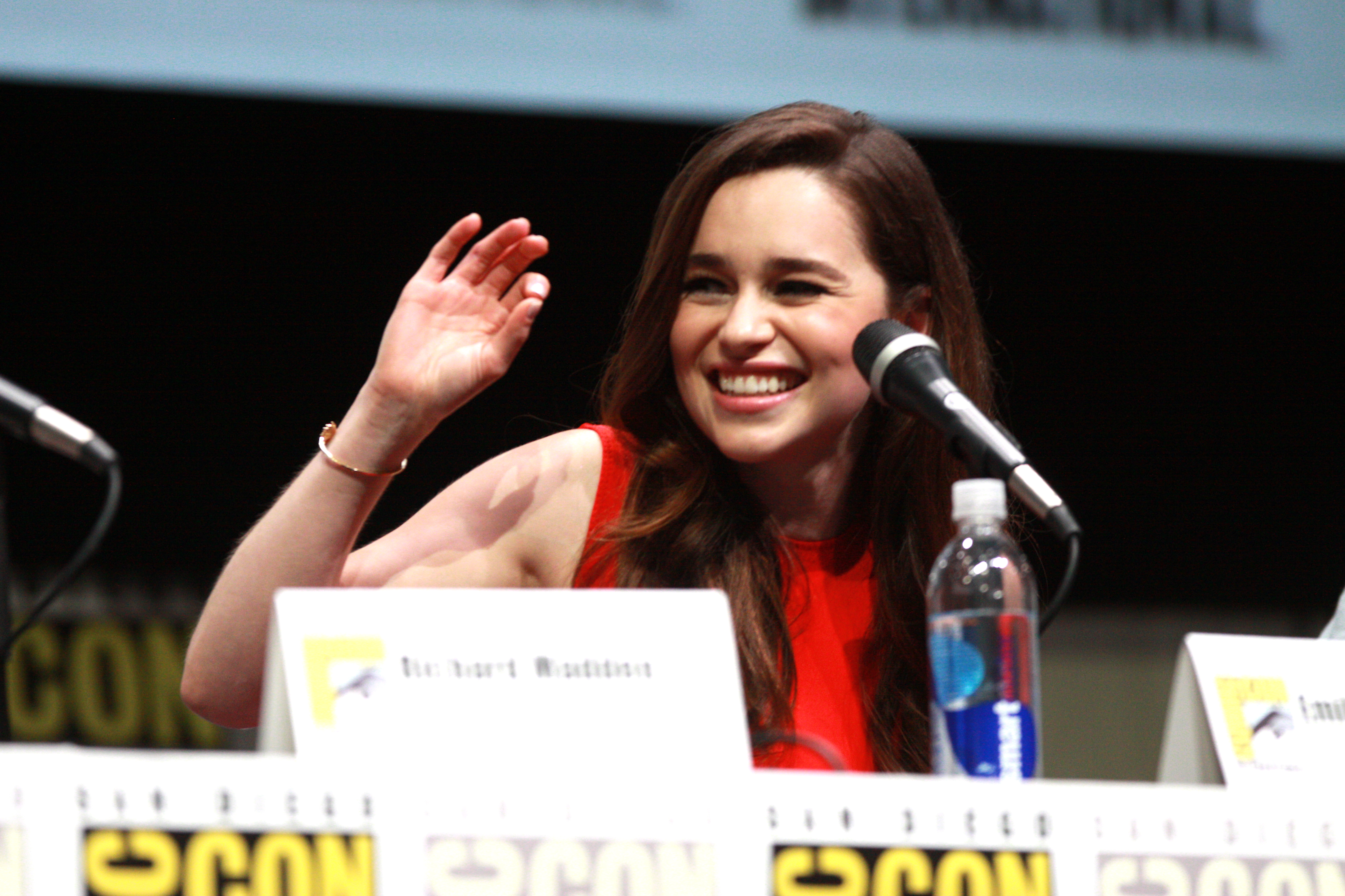 Emilia Clarke speaking at the 2013 San Diego Comic Con International, for "Game of Thrones", at the San Diego Convention Center in San Diego, California.